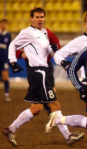 Konstantin Zyryanov in action for FC Torpedo Moscow